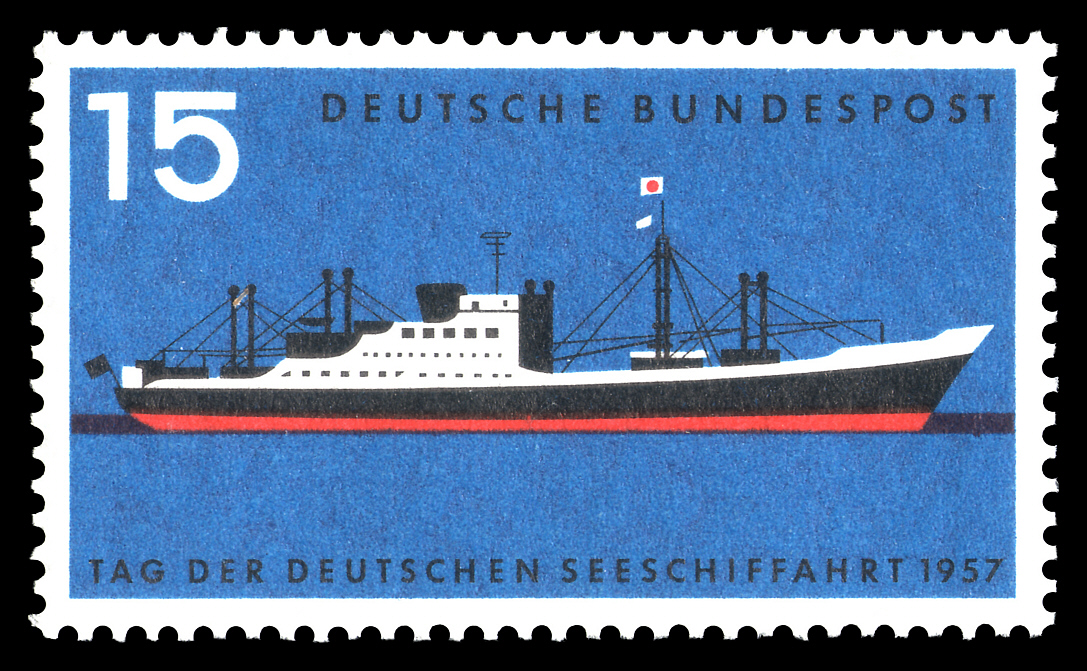 Special stamp for the Day of the German ship transportation